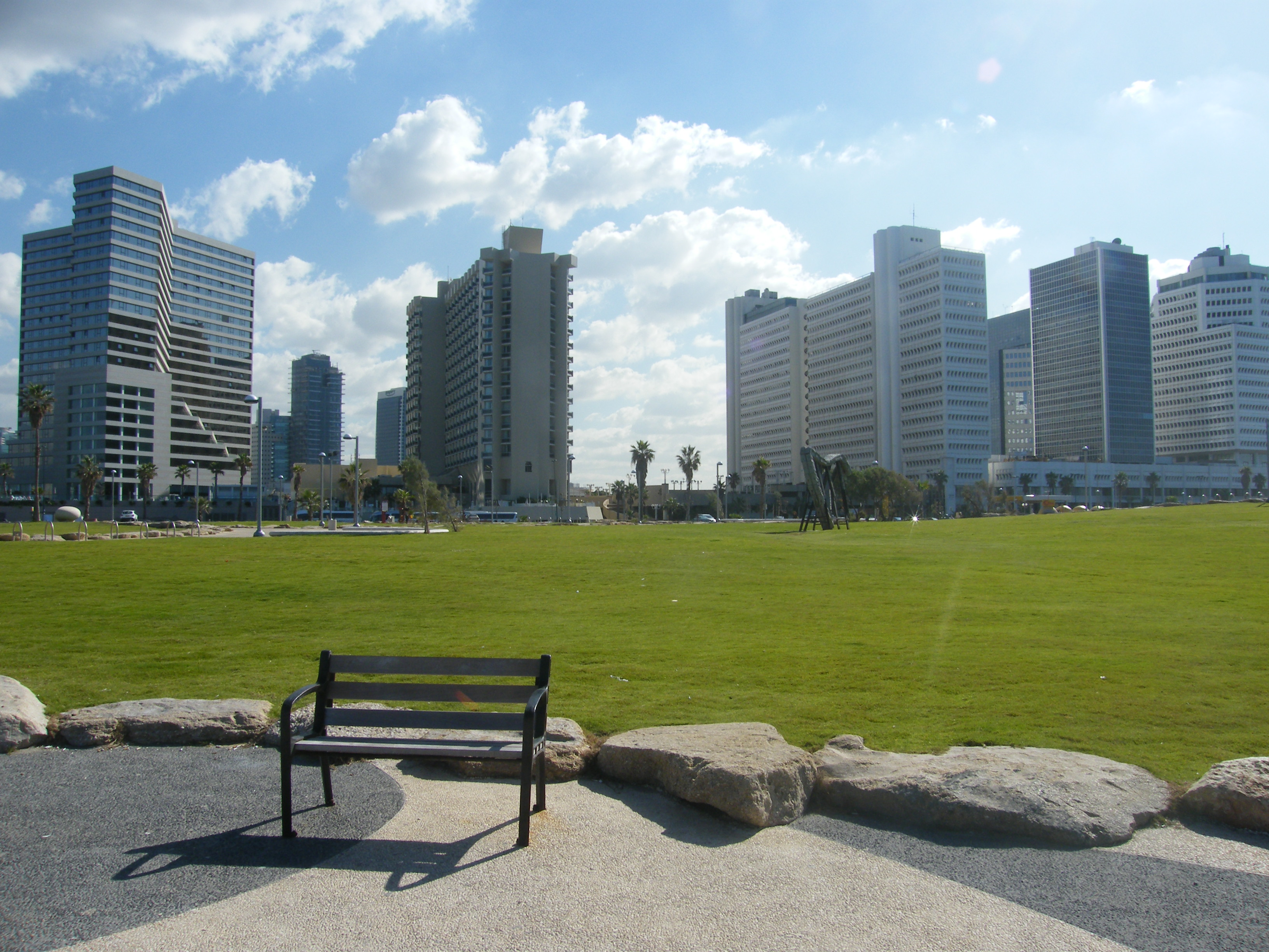 Environment of Israel